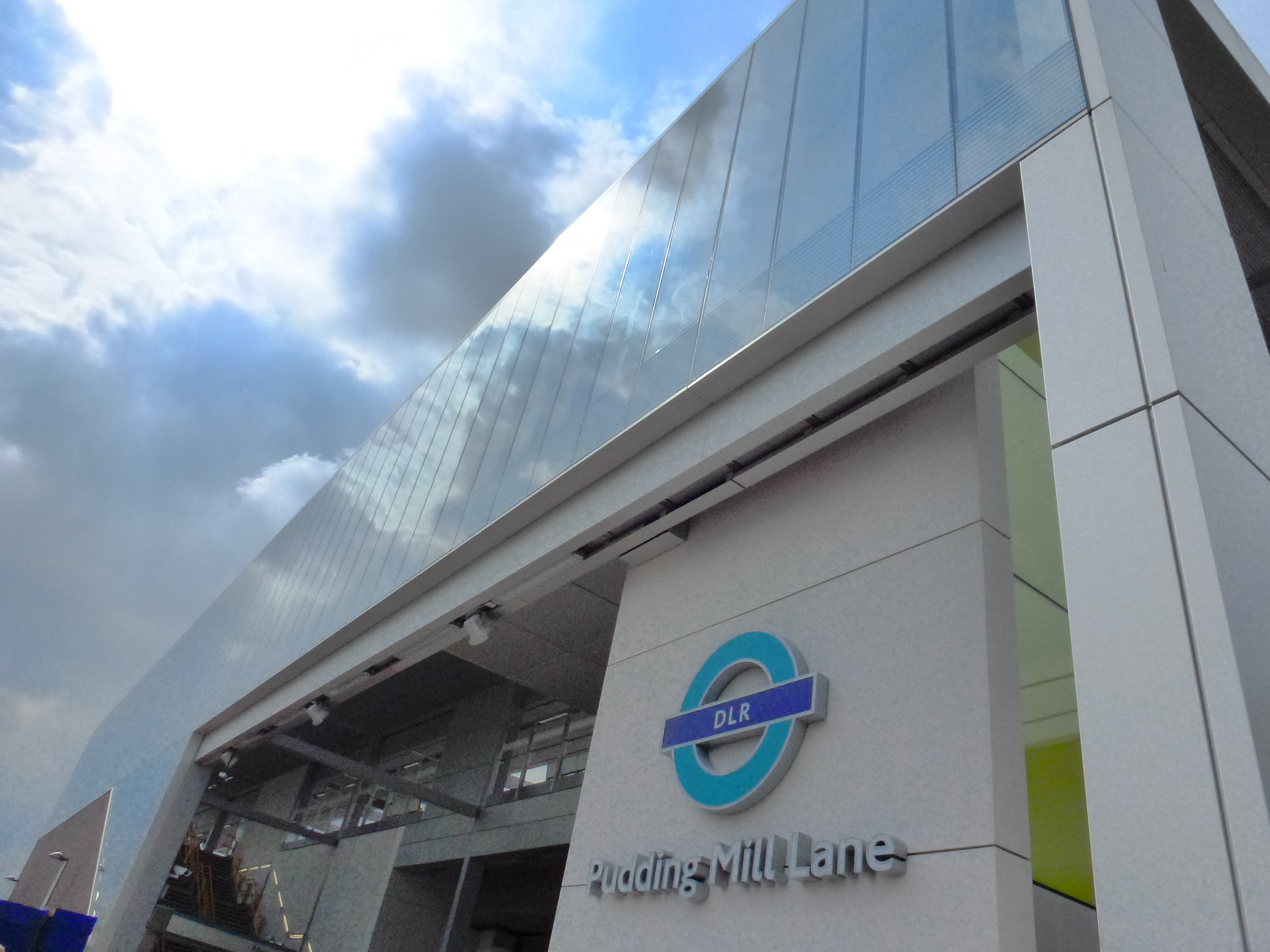 New station, rebuilt because of Crossrail